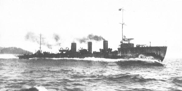 Tokitsukaze(I), Isokaze class destroyer of the Imperial Japanese Navy, on trial run off Miyazu Bay.